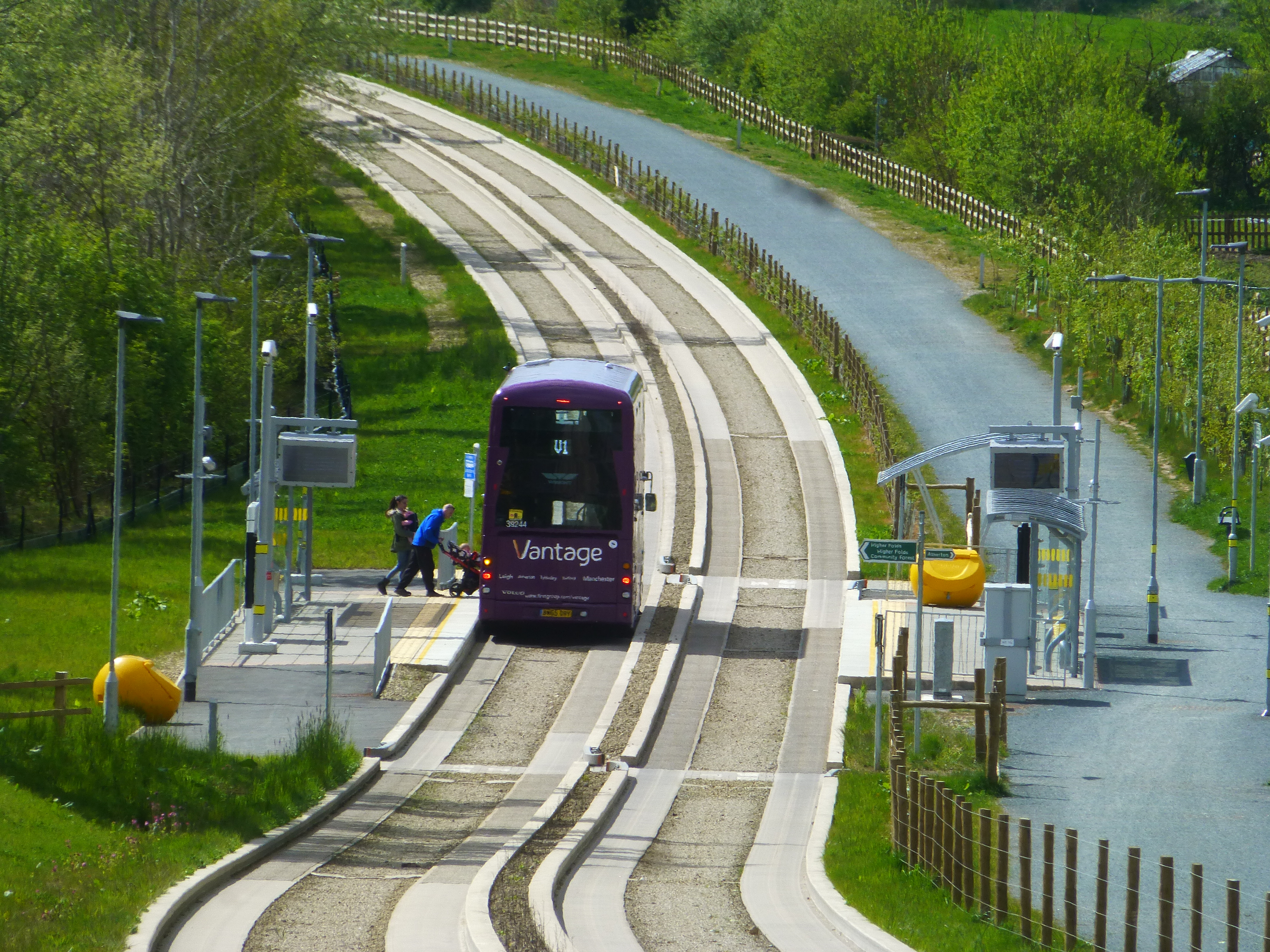 A Vantage bus on route V1 calls at Cooling Lane bus stop on the Manchester / Leigh kerb guided busway